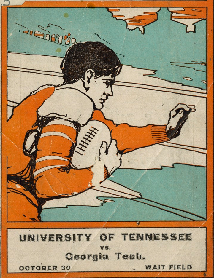 Cover of the 1909 Tennessee vs. Georgia Tech football program showing a Tennessee Volunteers football player